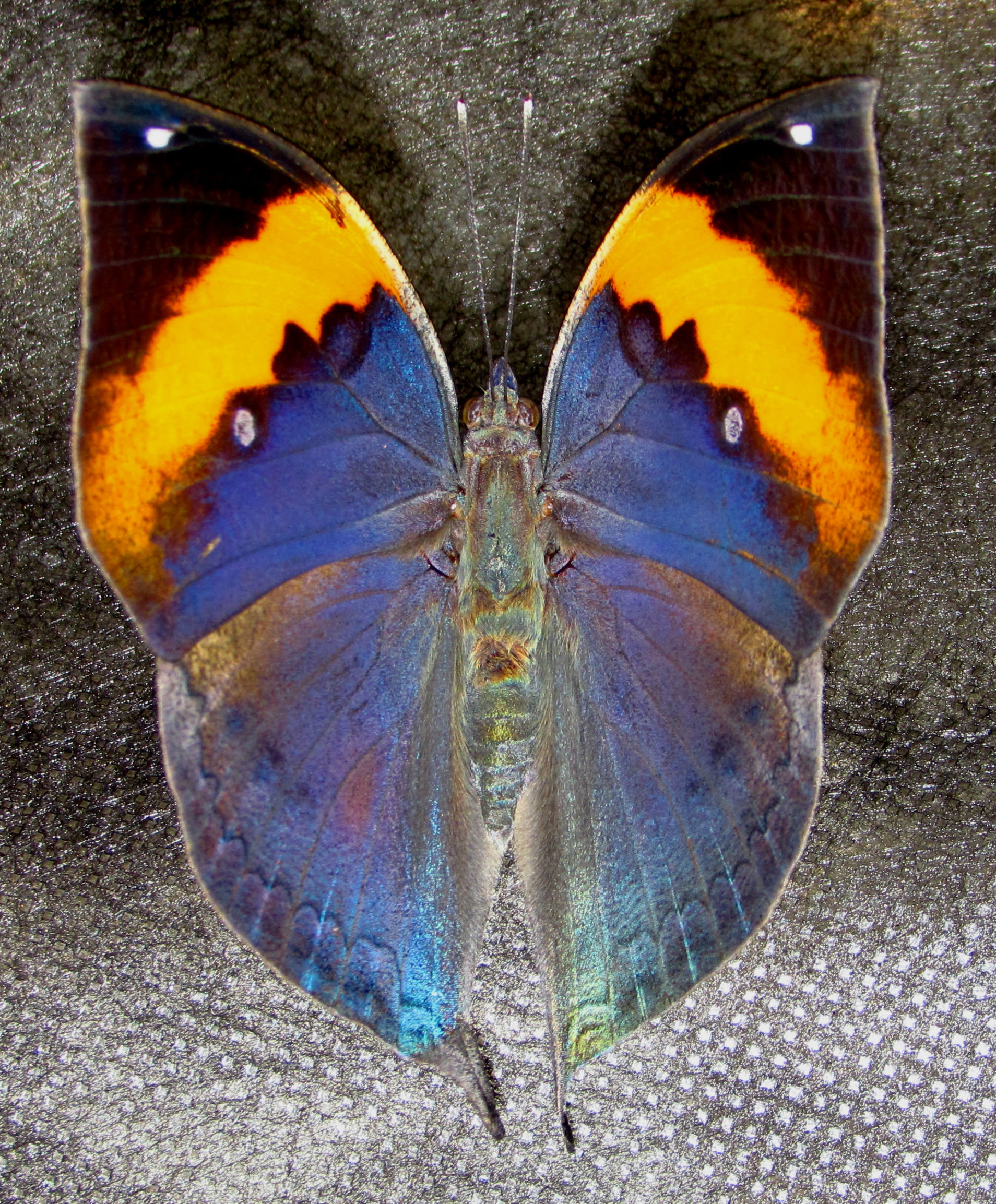 Indian Leafwing (Kallima paralekta), male, dorsal view